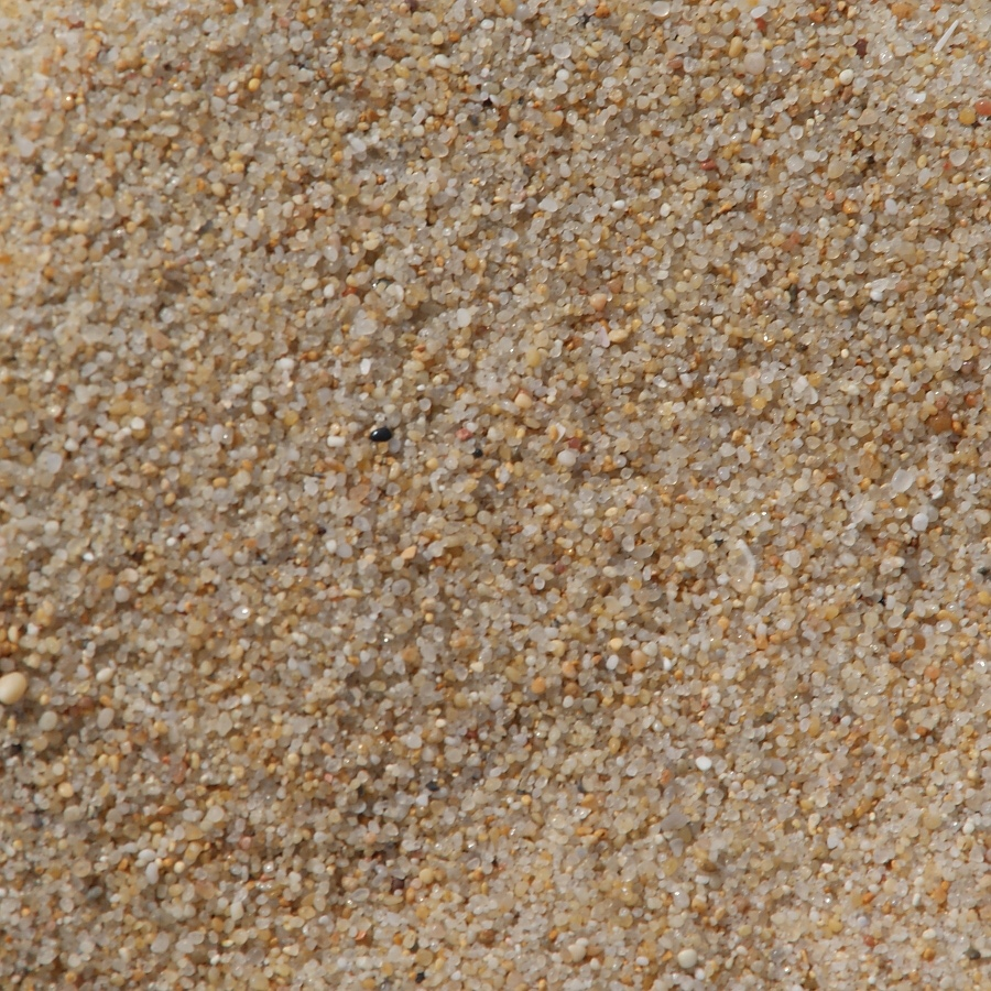 Quartz sand, largely SiO2.